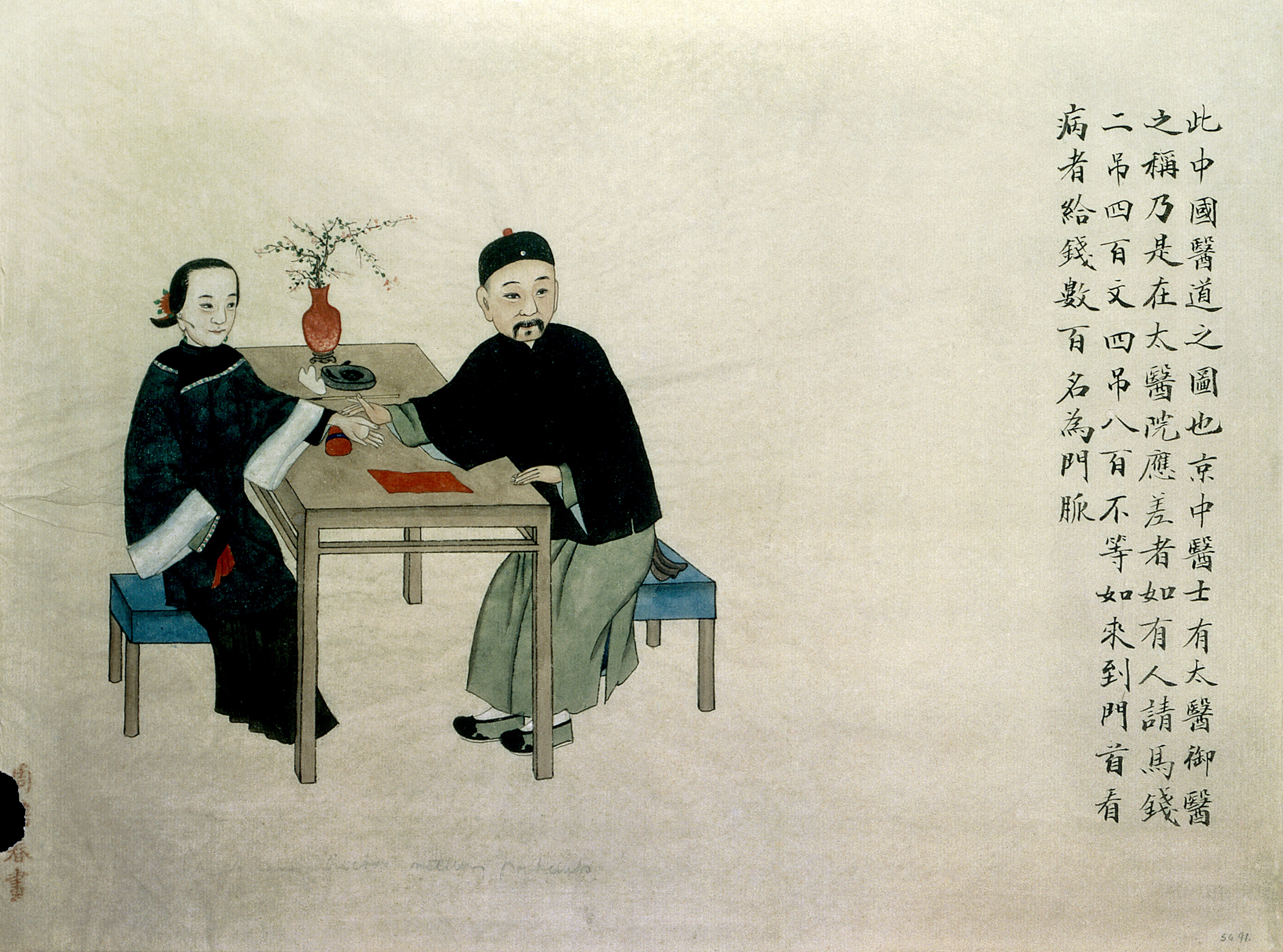 The doctor is feeling the pulse of a woman patient. Her wrist is supported on a small red bolster. The doctor touches the pulse only with his finger-tips, without looking at the woman. Asian Collection Keywords: china: art; Zhou Peichun